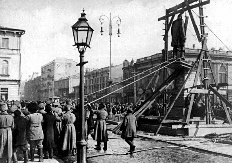 A photo of a Ukrainian revolutionary crowd demolishing a monument to Russian prime-minister Stolypin in Kyiv in March 1917